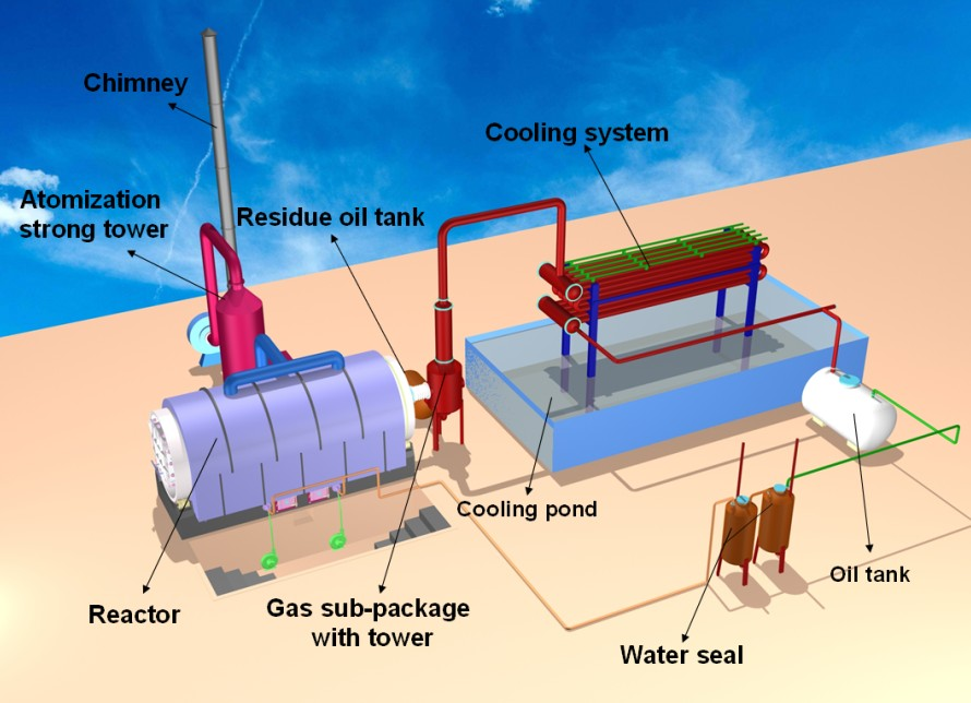 Diagram shows the factory layout of typical pyrolysis plant